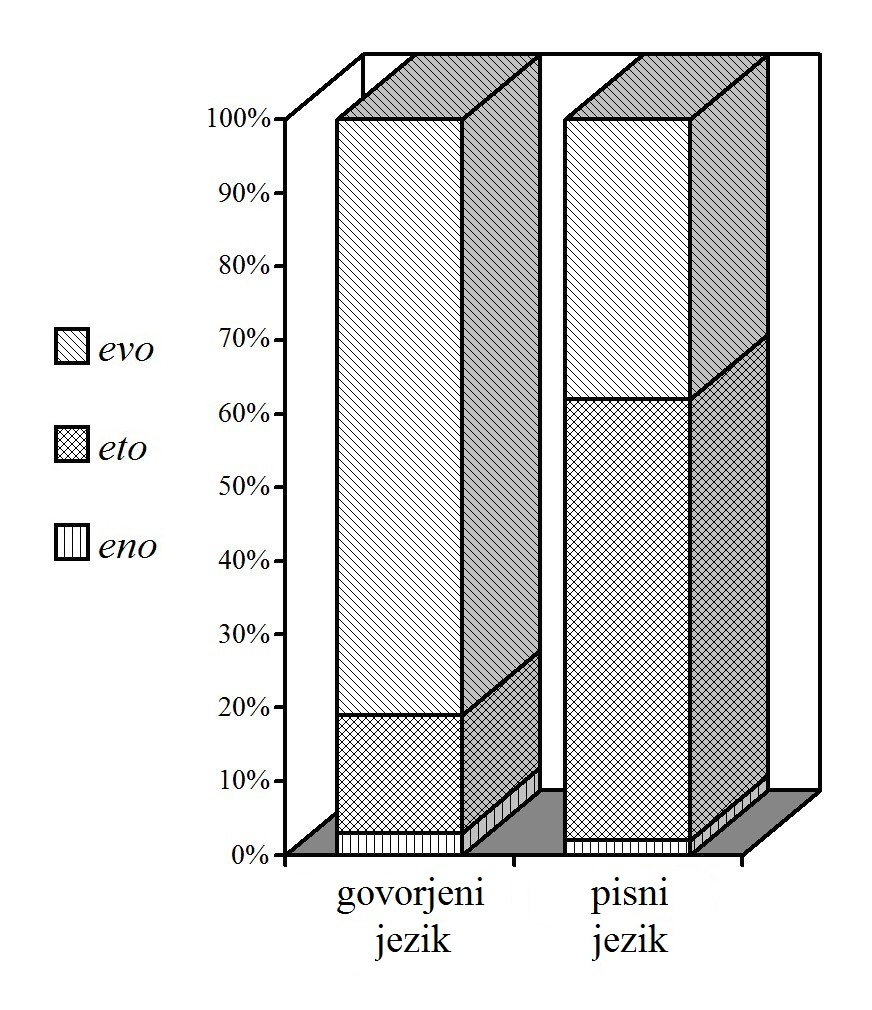 Slovene translation of the file File:Frequency of demonstratives.jpg